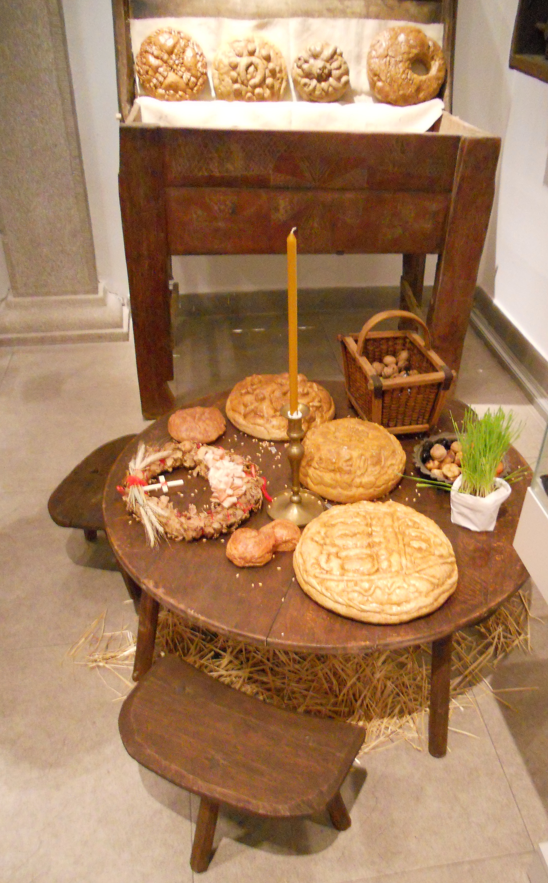 The ritual bread in Serbia for Christmas Eve and Christmas Day